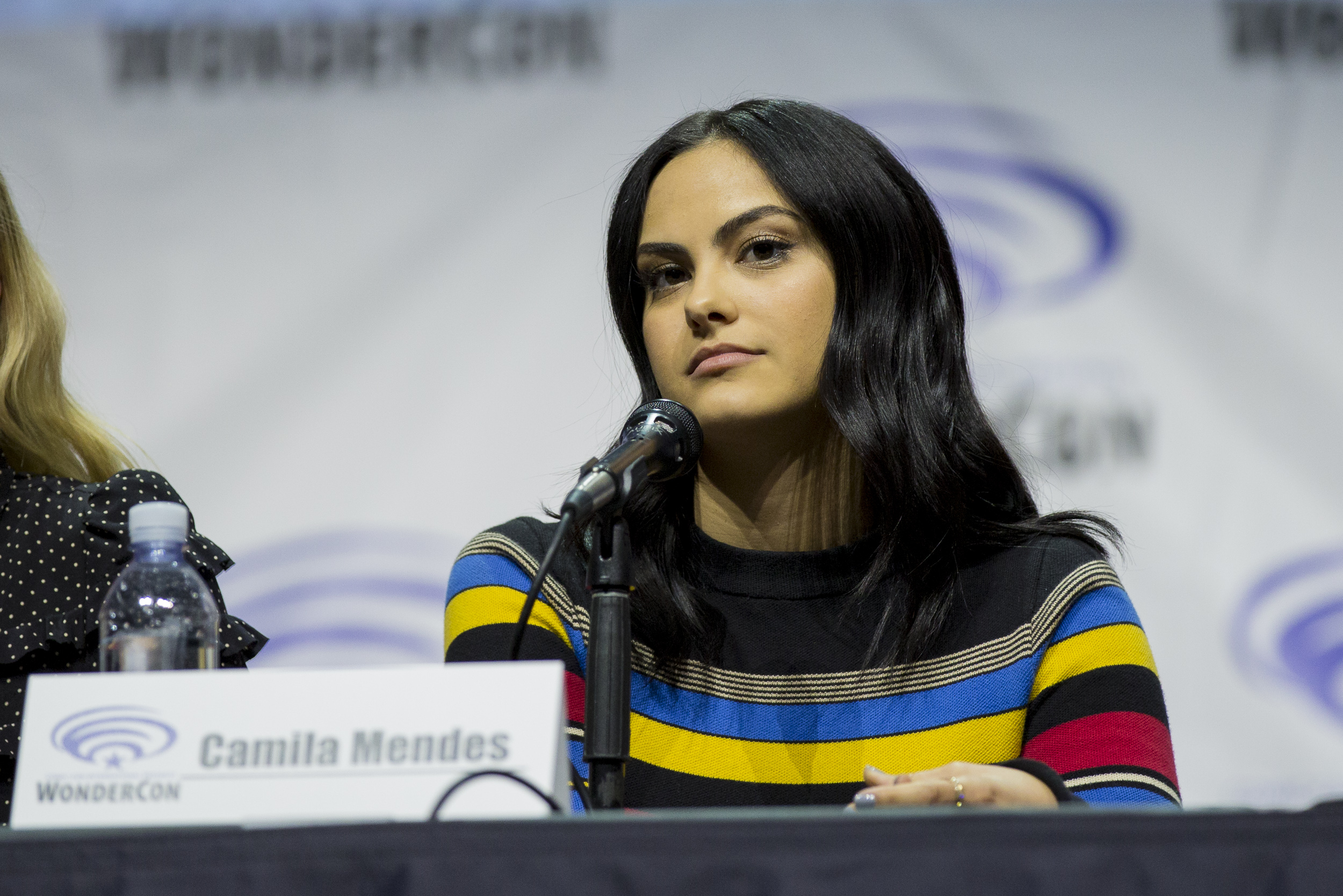 From the Riverdale panel at WonderCon 2017 in Anaheim, California.